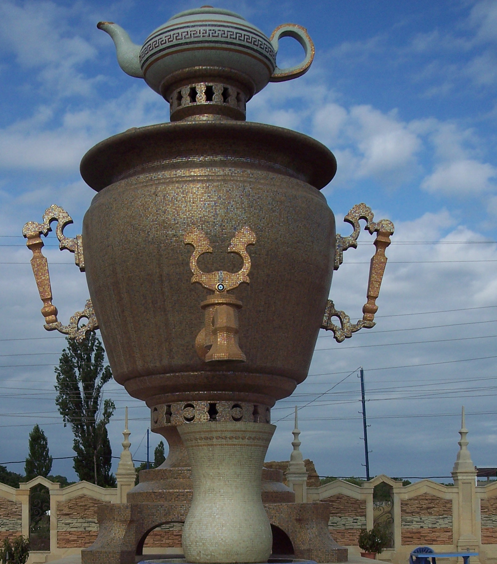 monument to samovar in Khachmas city, Azerbaijan